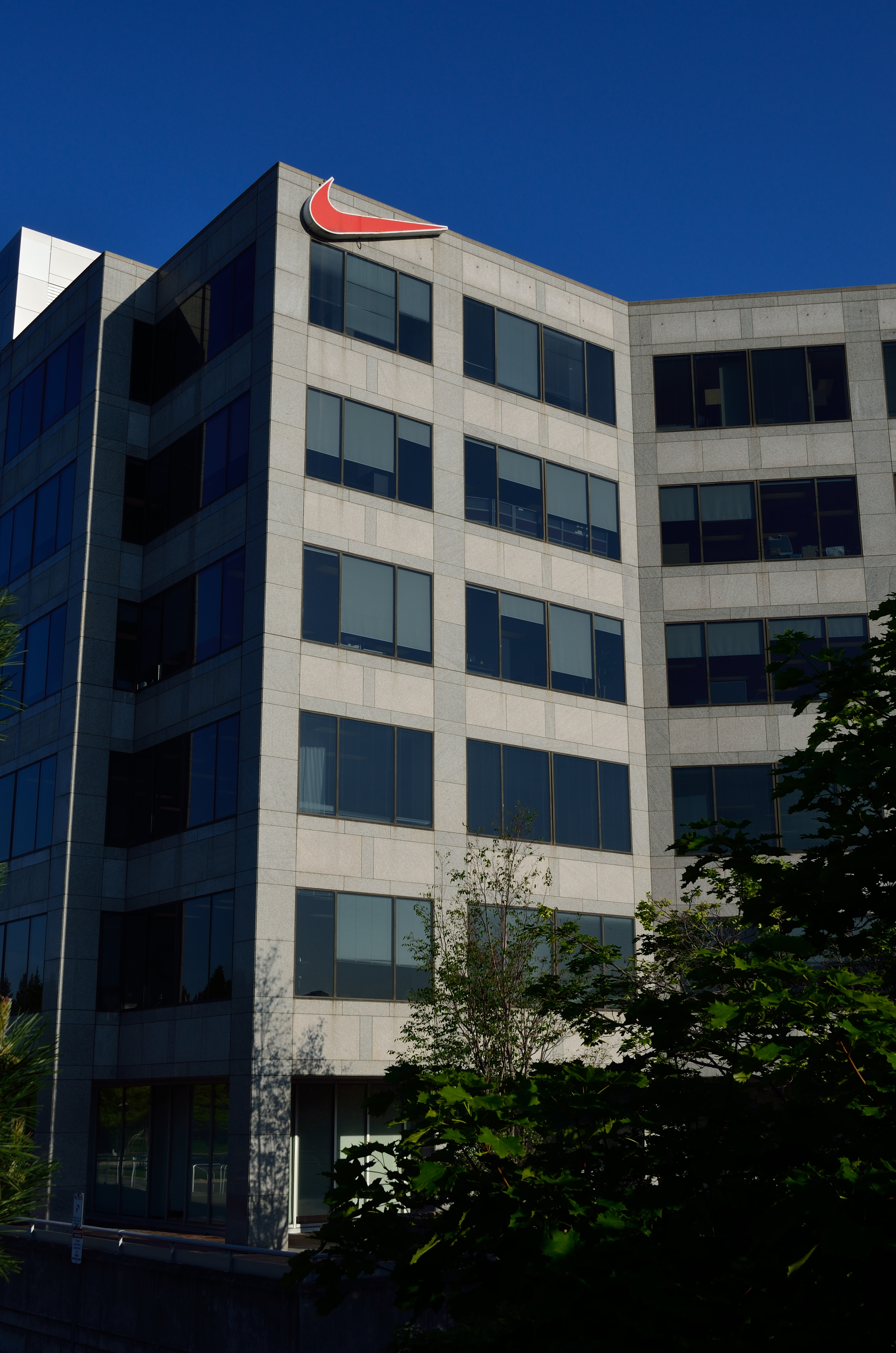 Nike Canada Ltd office building - 175 Commerce Valley Drive West, Markham, Ontario